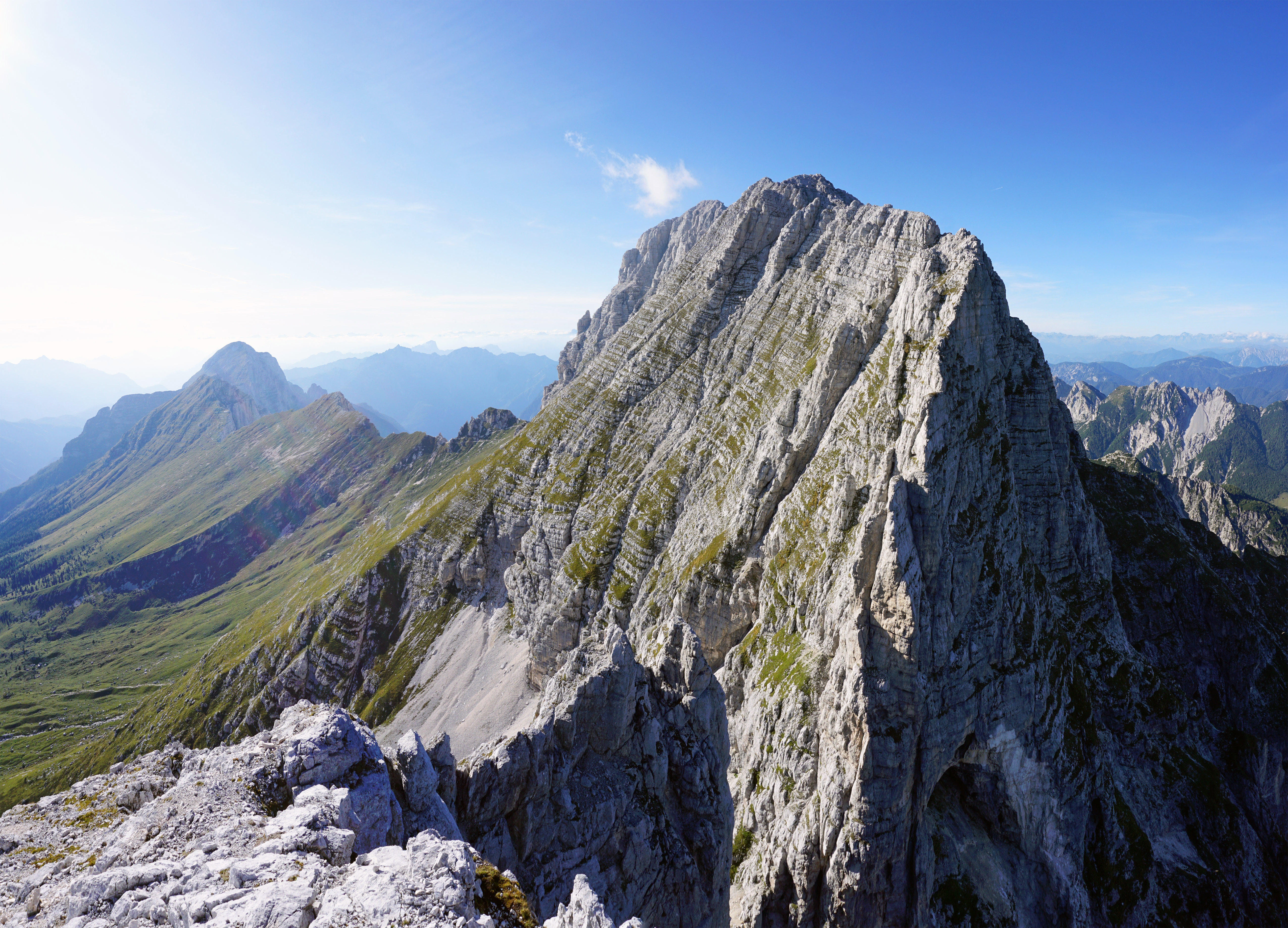 Modeon del Montasio seen from Cima di Terrarossa, Friuli-Venezia Giulia, Italy.